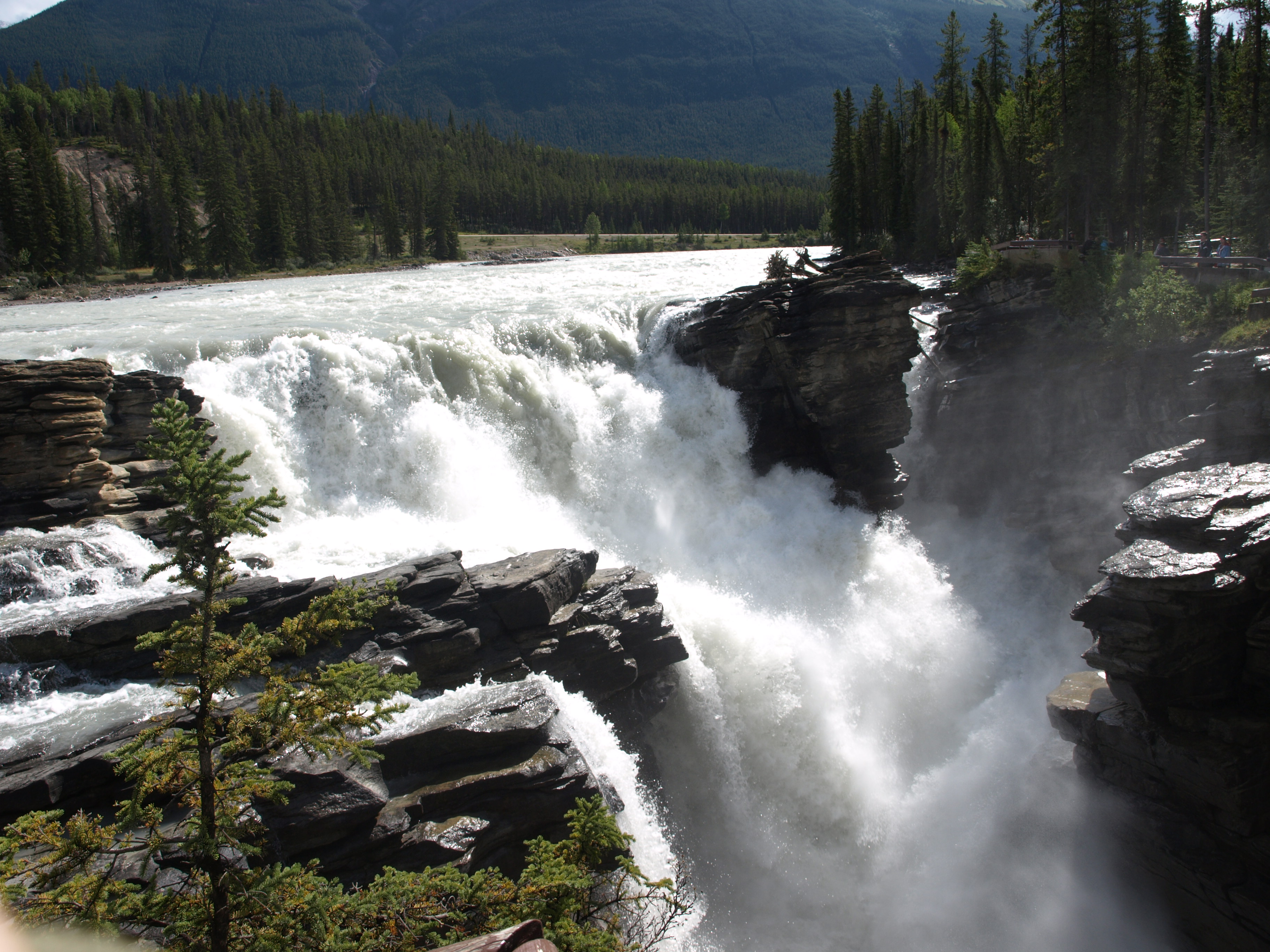 Athabasca Falls in Jasper National Park.